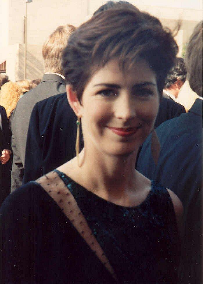 Dana Delany (star Desperate Hausewives) at Emmy Awards 1991